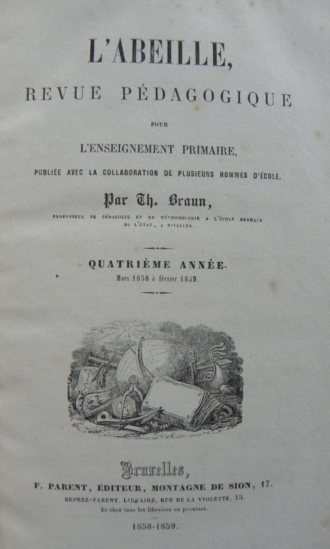 Cover of L'Abeille periodical (1856-1857) about pedagogy. Thomas Braun Editor.